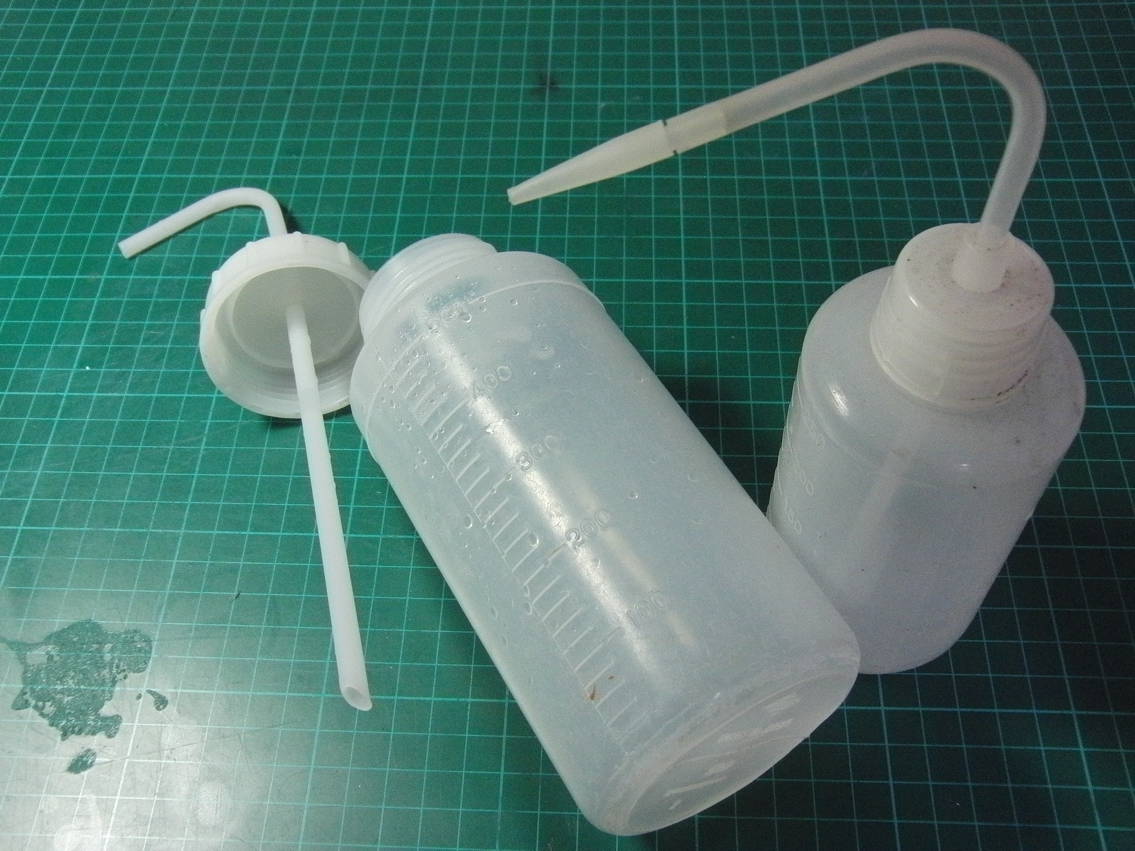 Washing bottle